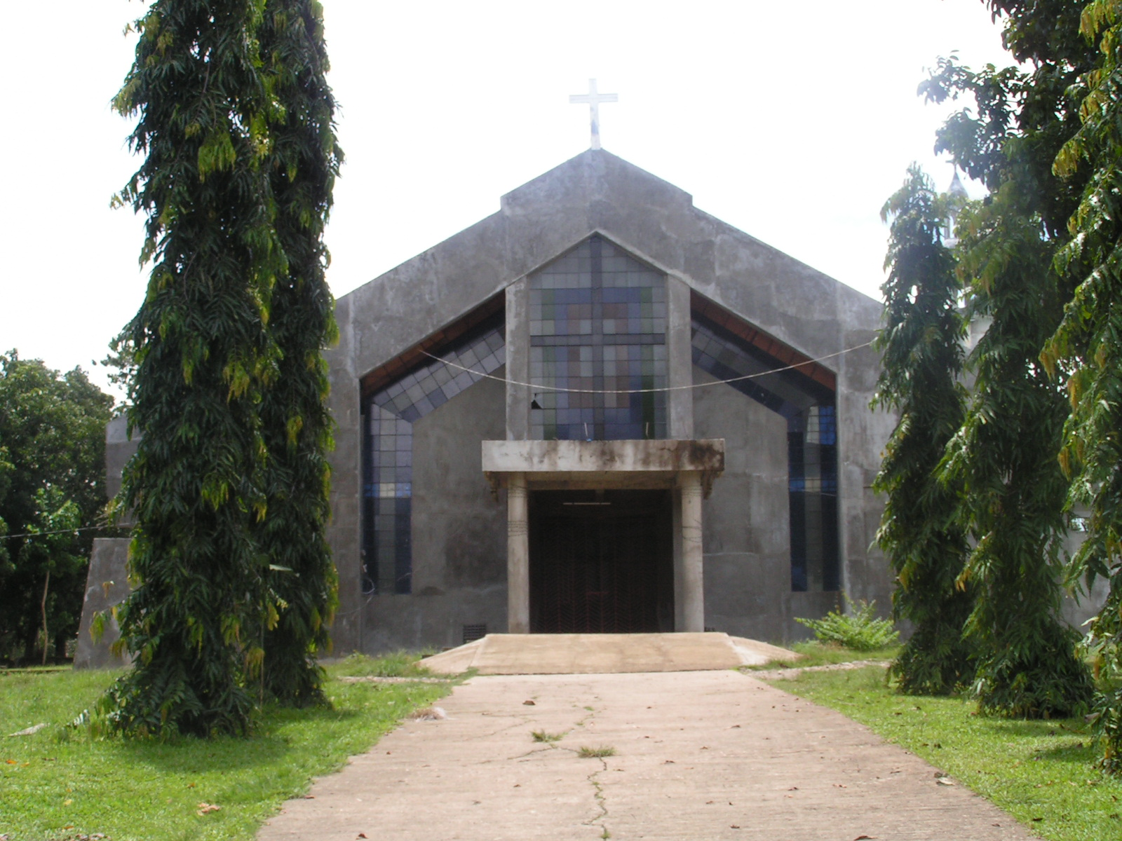 self-taken